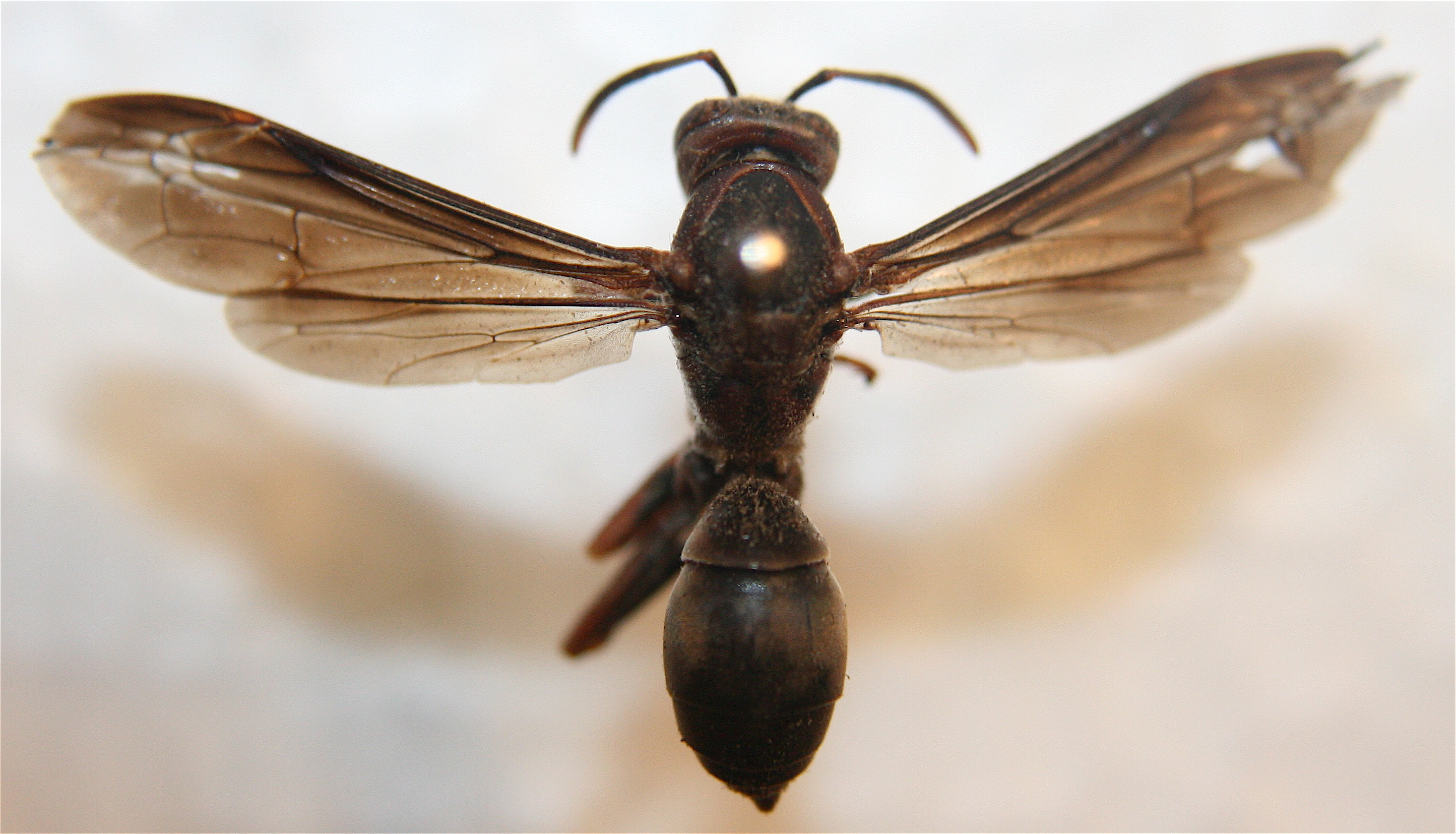 A Paper Wasp (Polistes metricus) caught in Portage, Michigan, USA.